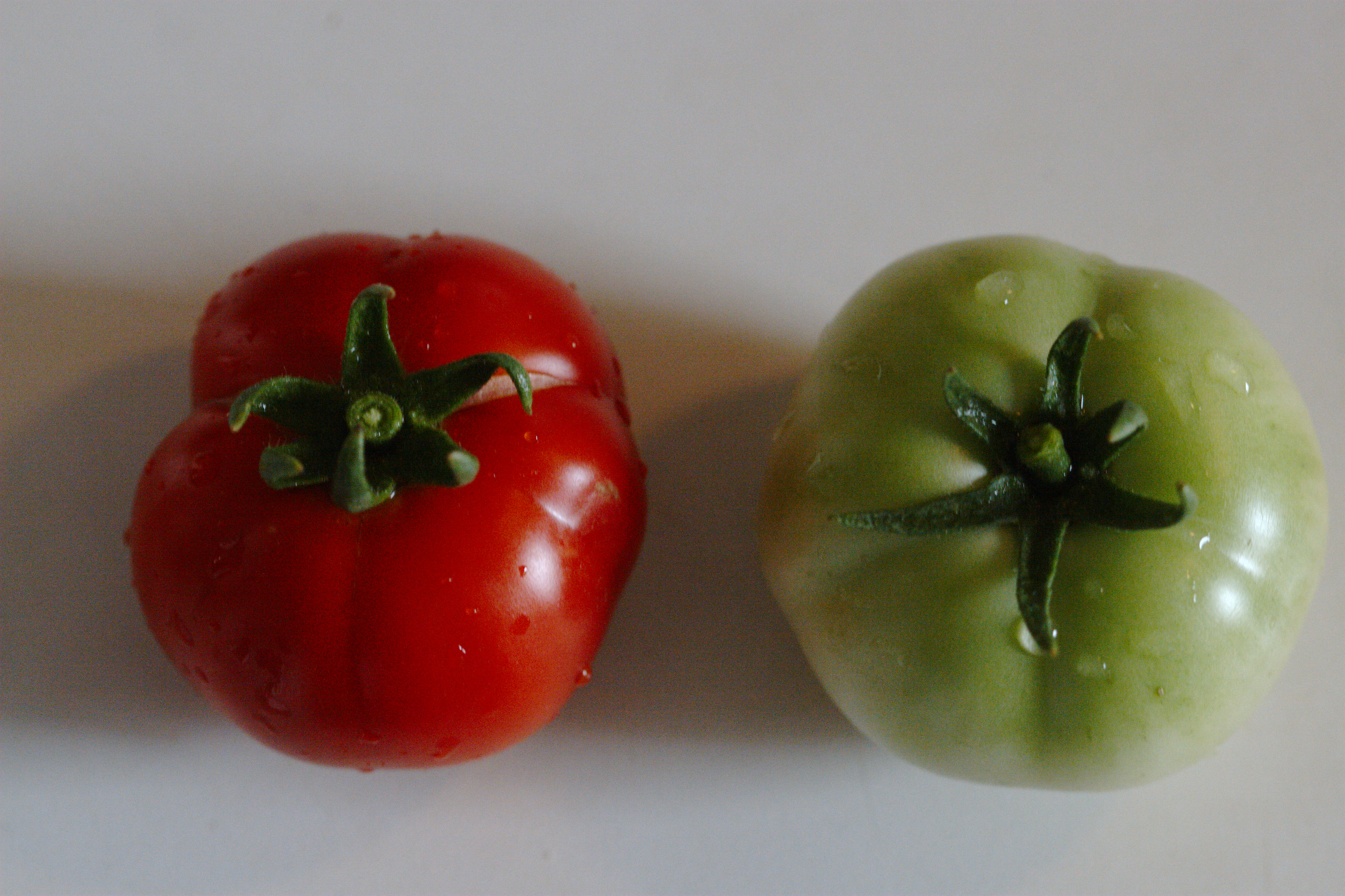 These are pictures of home grown Early Girl tomatoes.